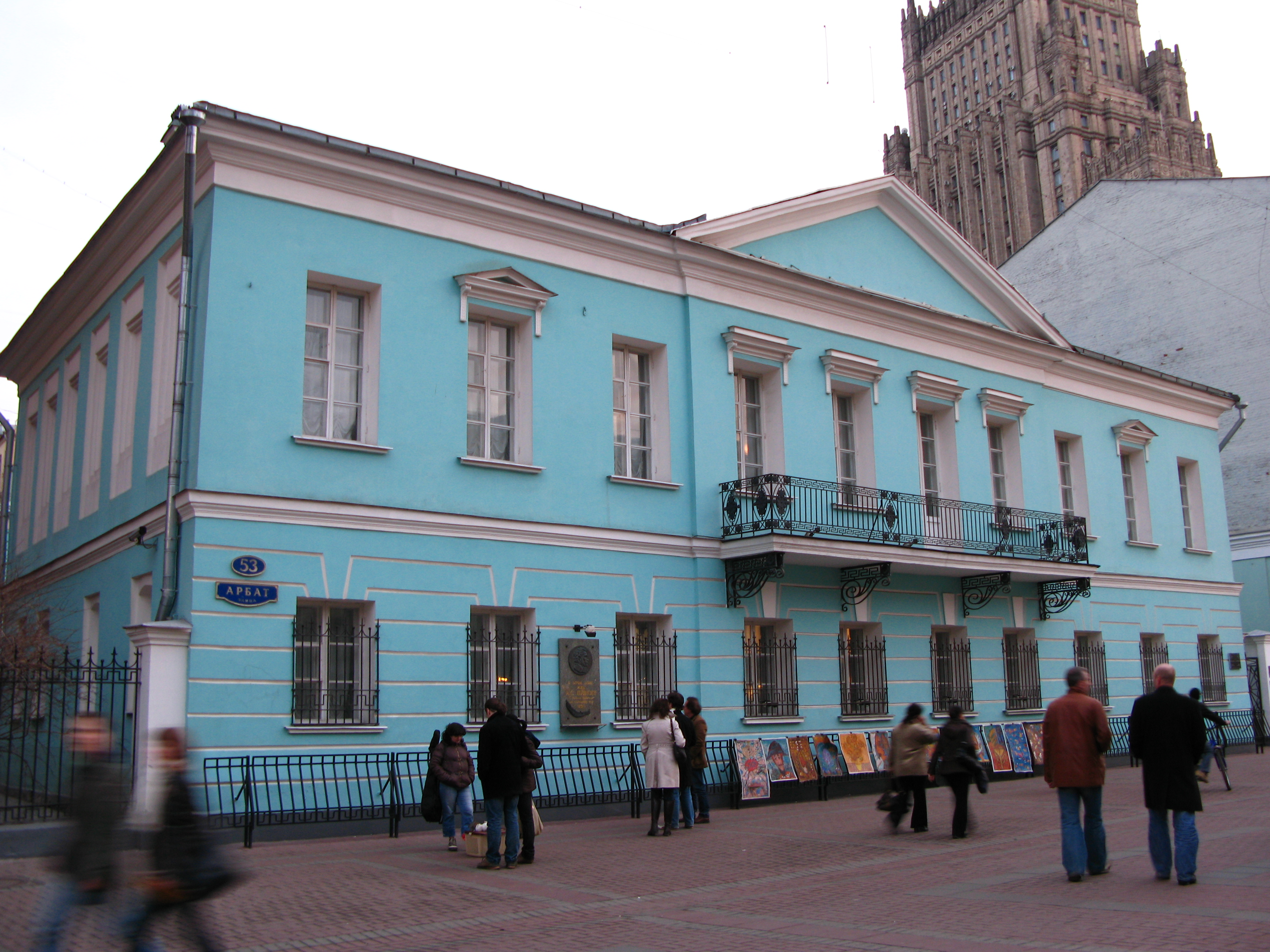 Pushkin house, Moscow.